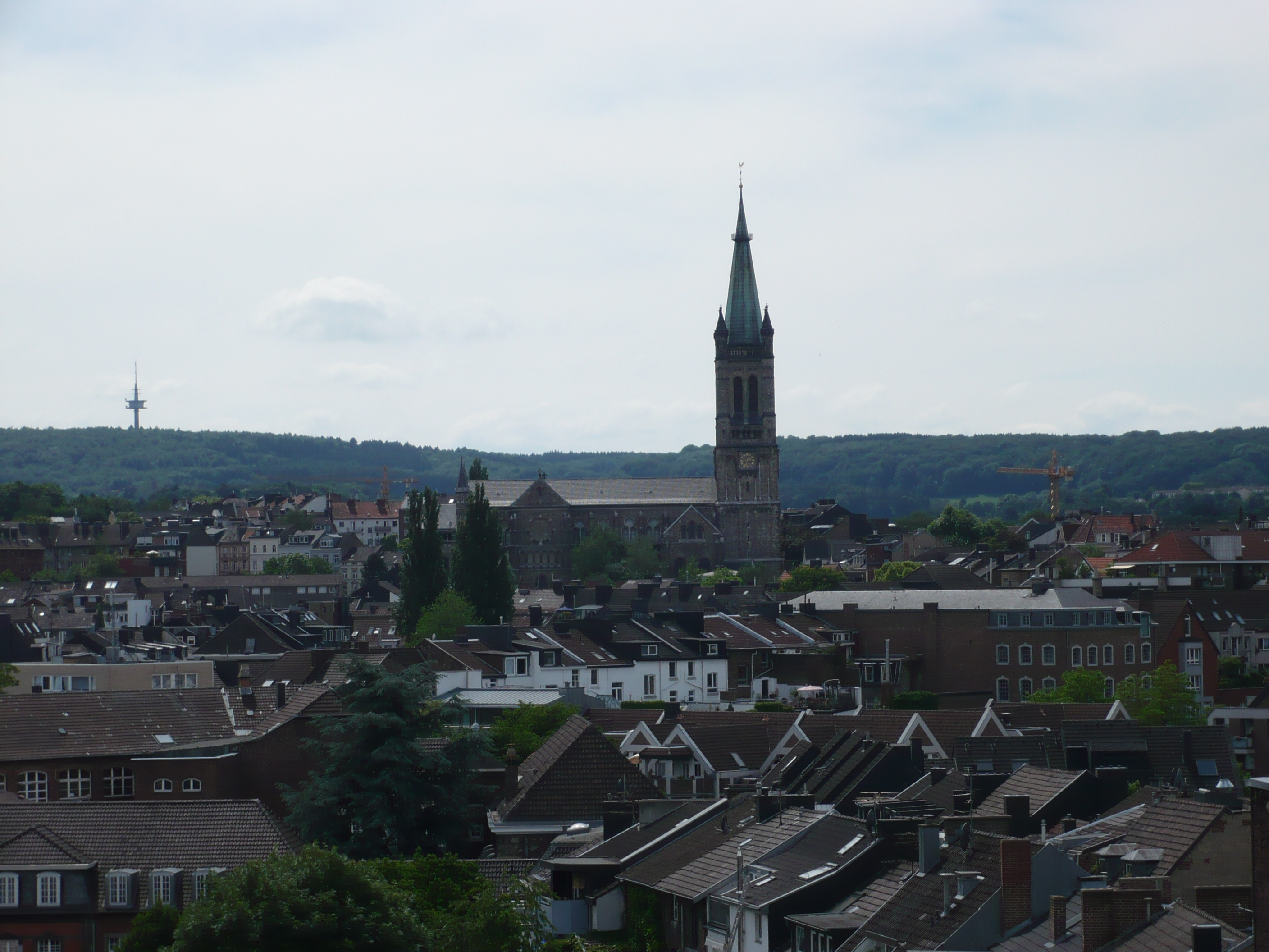 Church St. Jakob in Aachen, June 2008. View from the Aachen Cathedral's Tower